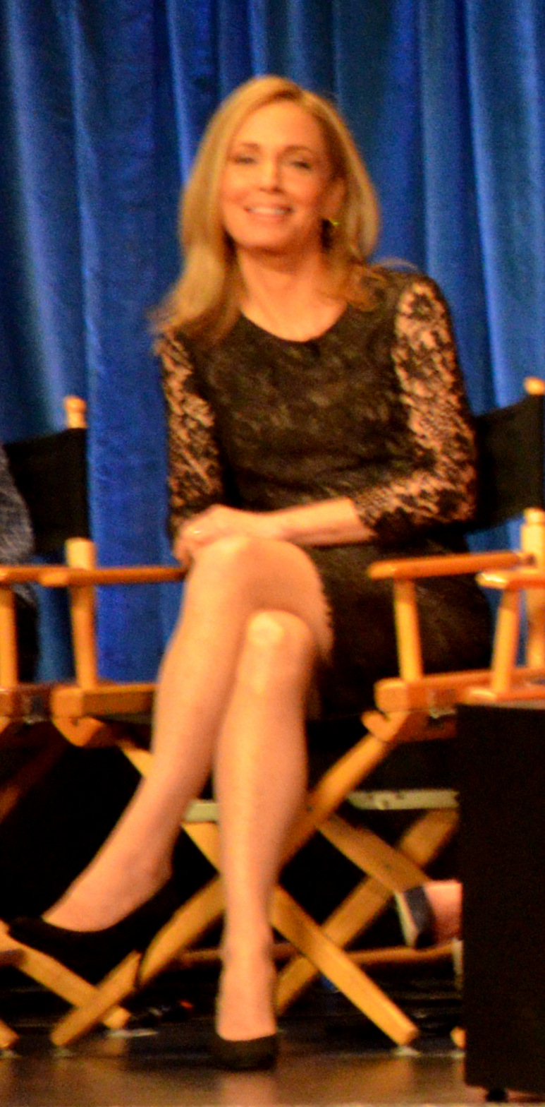 Susanna Thompson 2013.